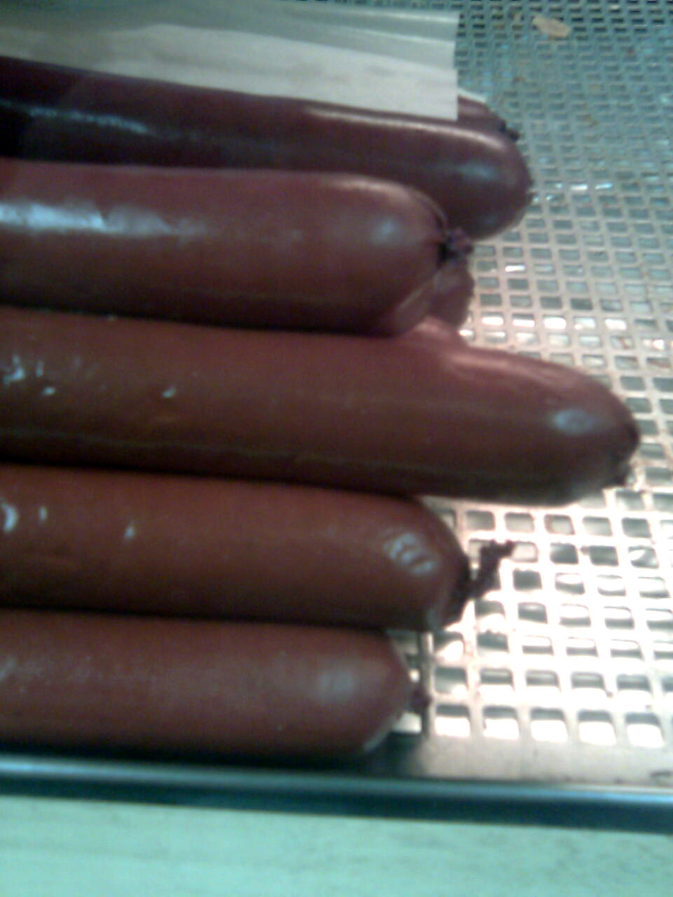 A saveloy is a type of highly seasoned pork sausage, usually bright red in colour, which is often served in English fish and chip shops.